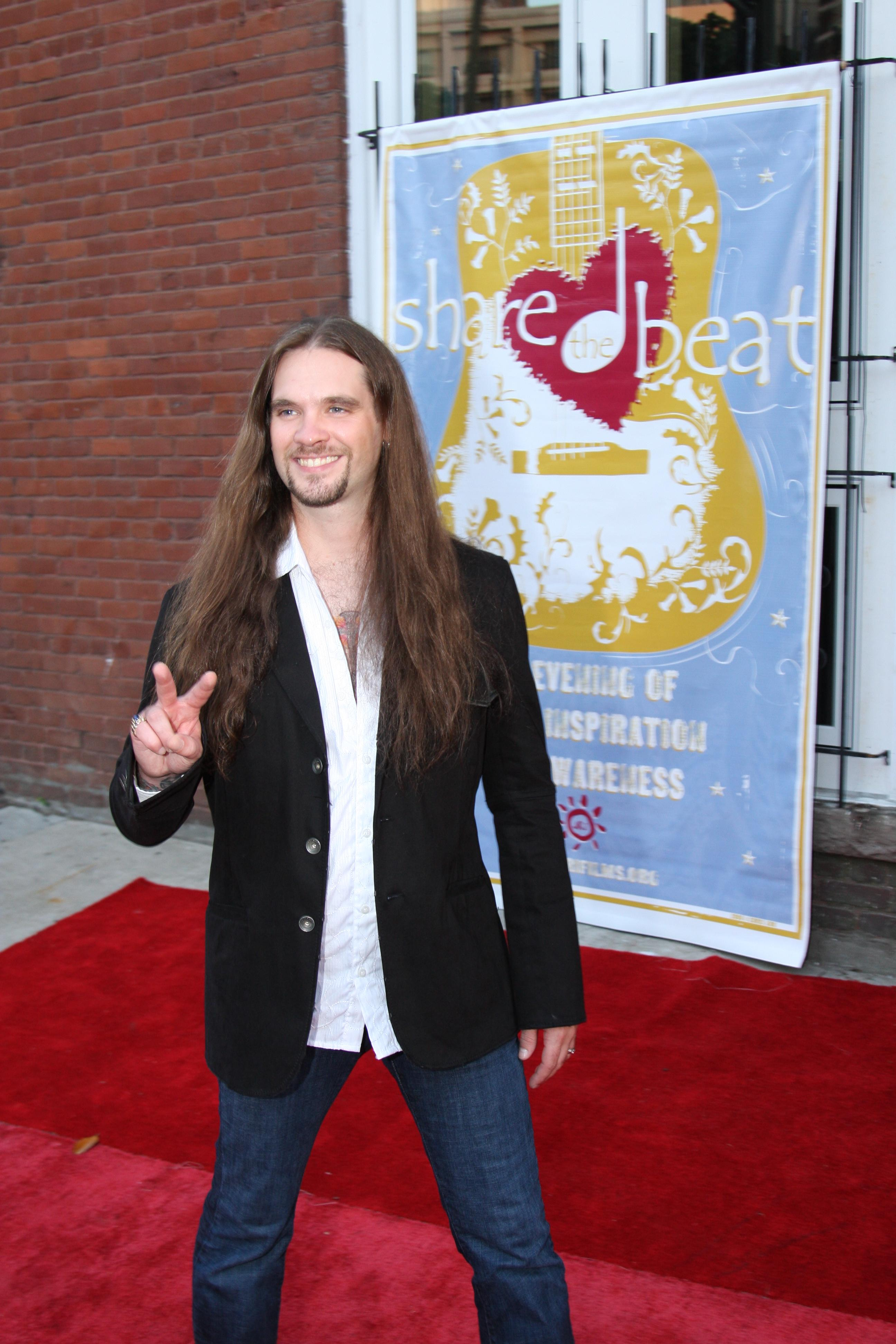 Bo Bice at Share the Beat Atlanta 2008